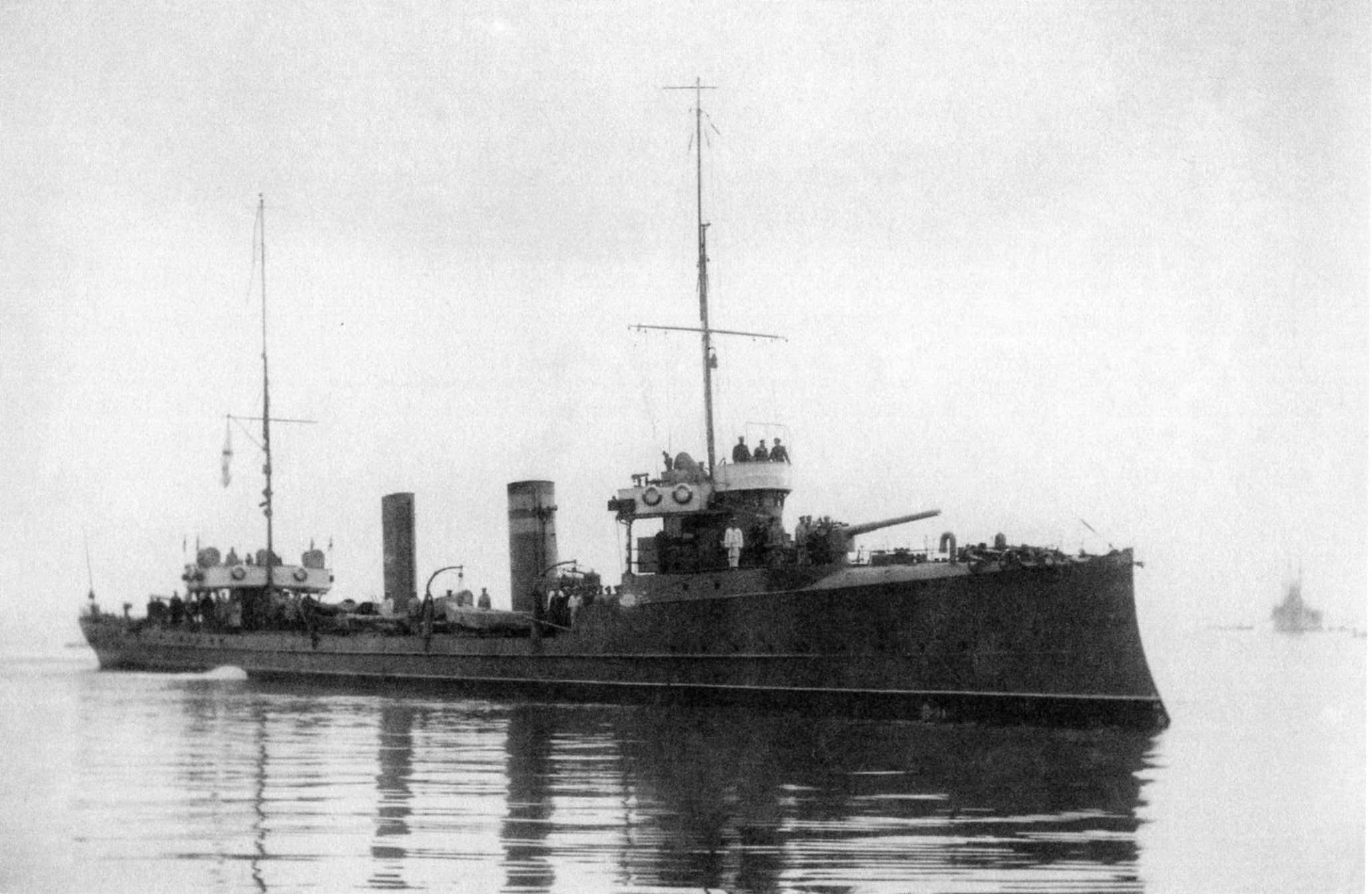 Imperial Russian destroyer Донской Казак (Donskoy Kazak).